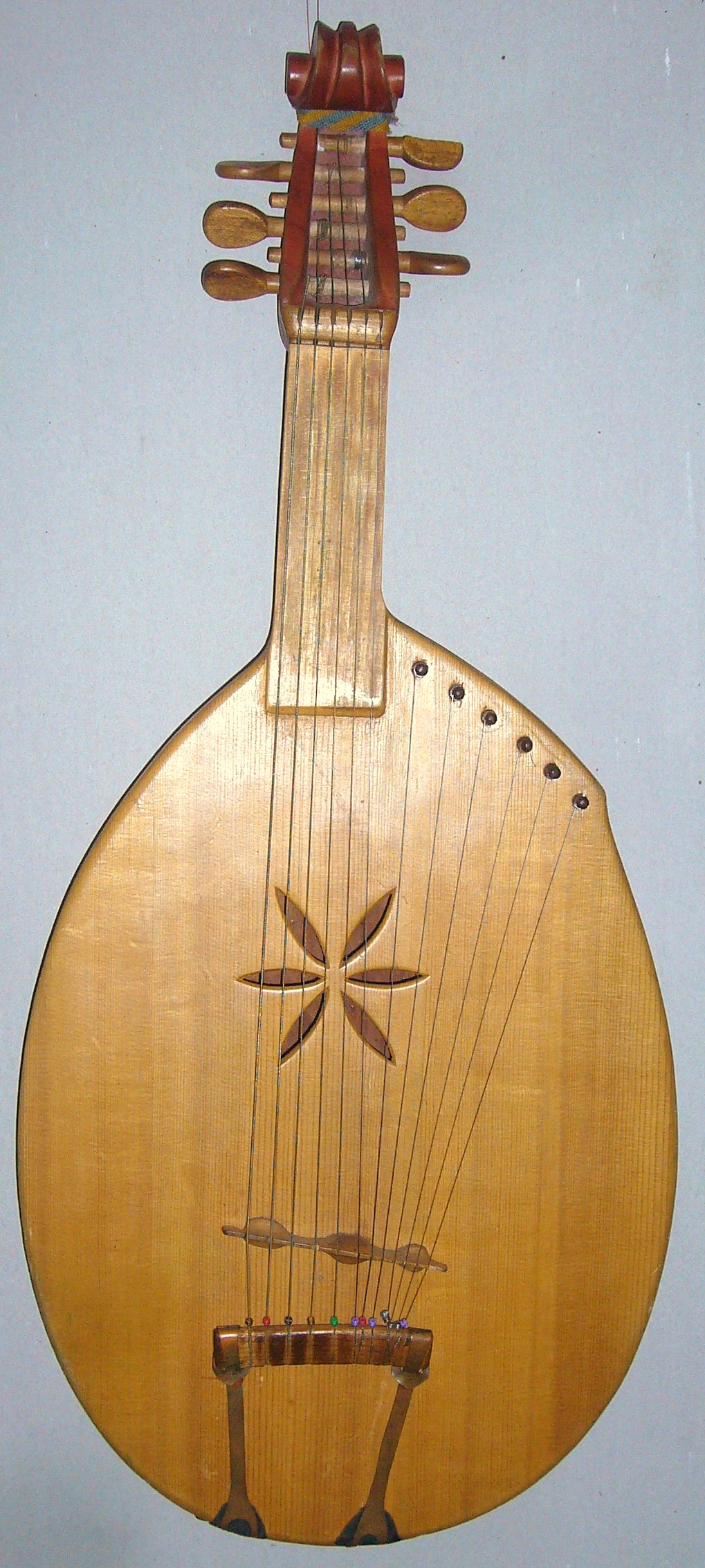 Modern Kobza Of Veresai - Ukrainian Luth-like instrument, primarily described by Mykola Lysenko from Ostap Veresai - Ukrainian blind epic singer approx. in 1871